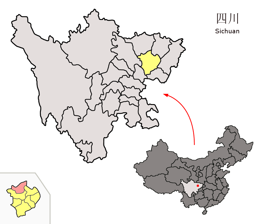 Location of Langzhong County (pink) and Nanchong Prefecture (yellow) within Sichuan province of China Map drawn in october 2007 using various sources, mainly : Sichuan province administrative regions GIS data: 1:1M, County level, 1990 Sichuan Counties map from